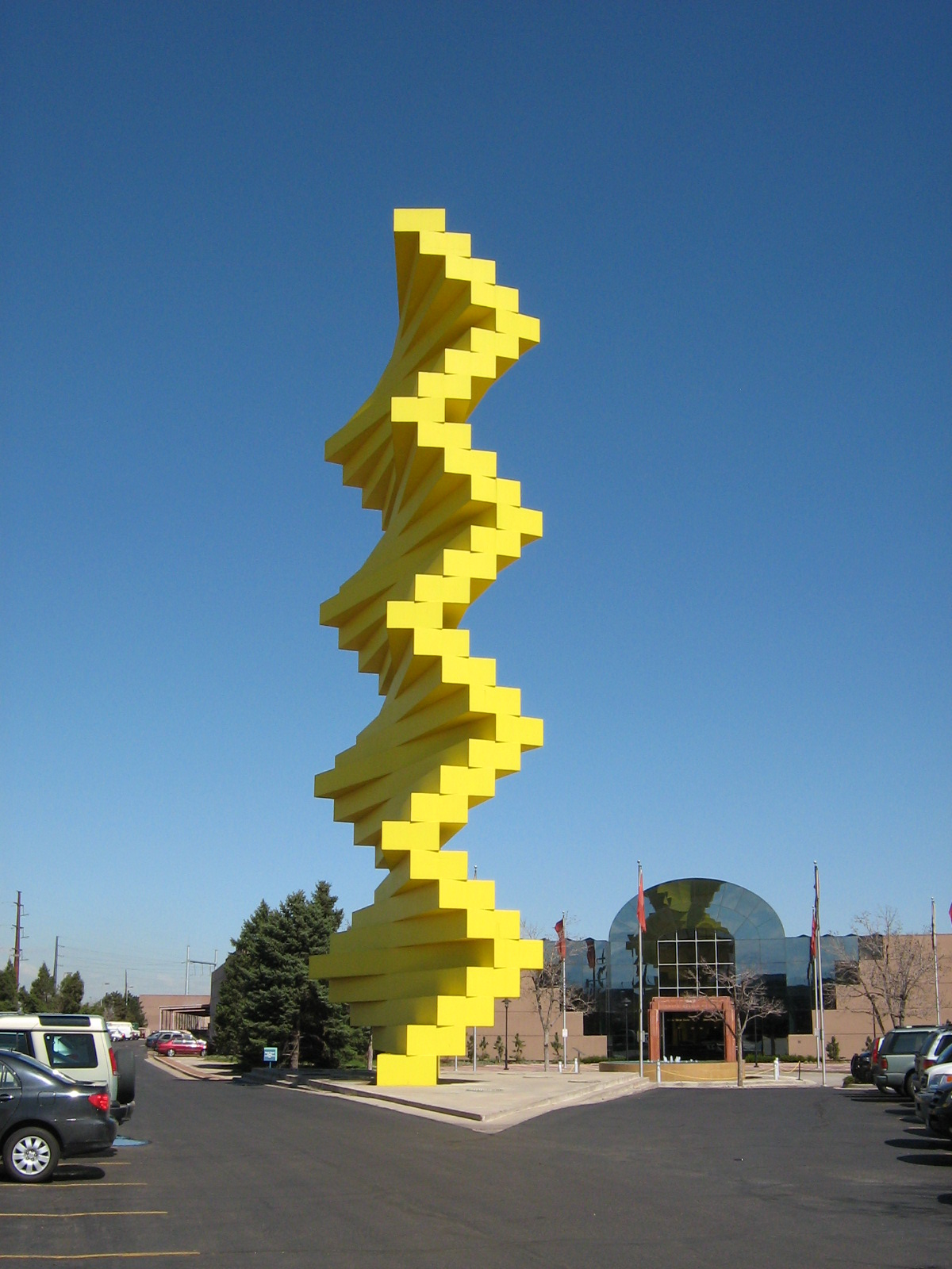 Taken by Nospam todd Nospamtodd| 19:36, 9 April 2007 (UTC), open for all to use.